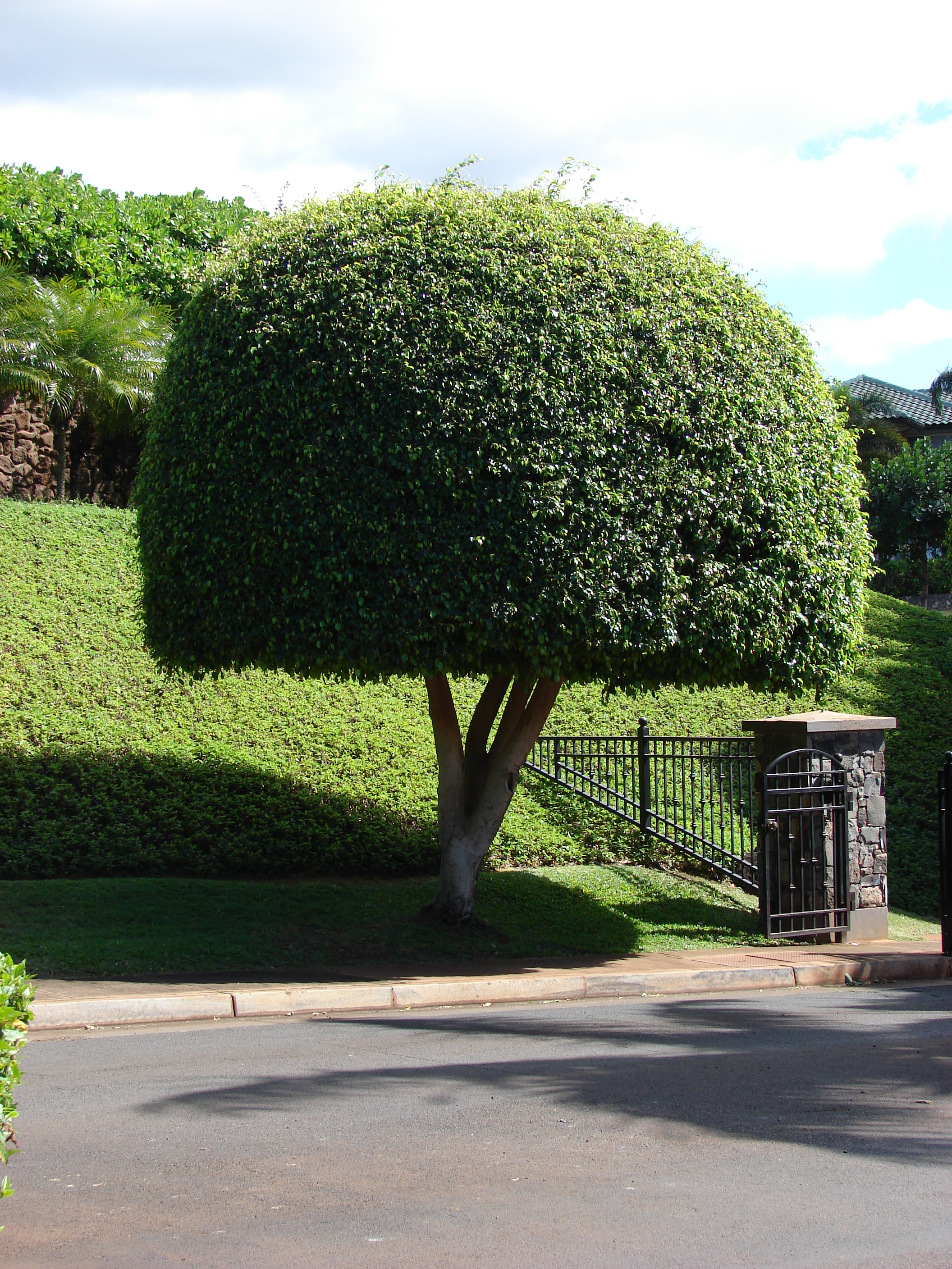 Ficus benjamina (formally sheared). Location: Maui, Kaanapali